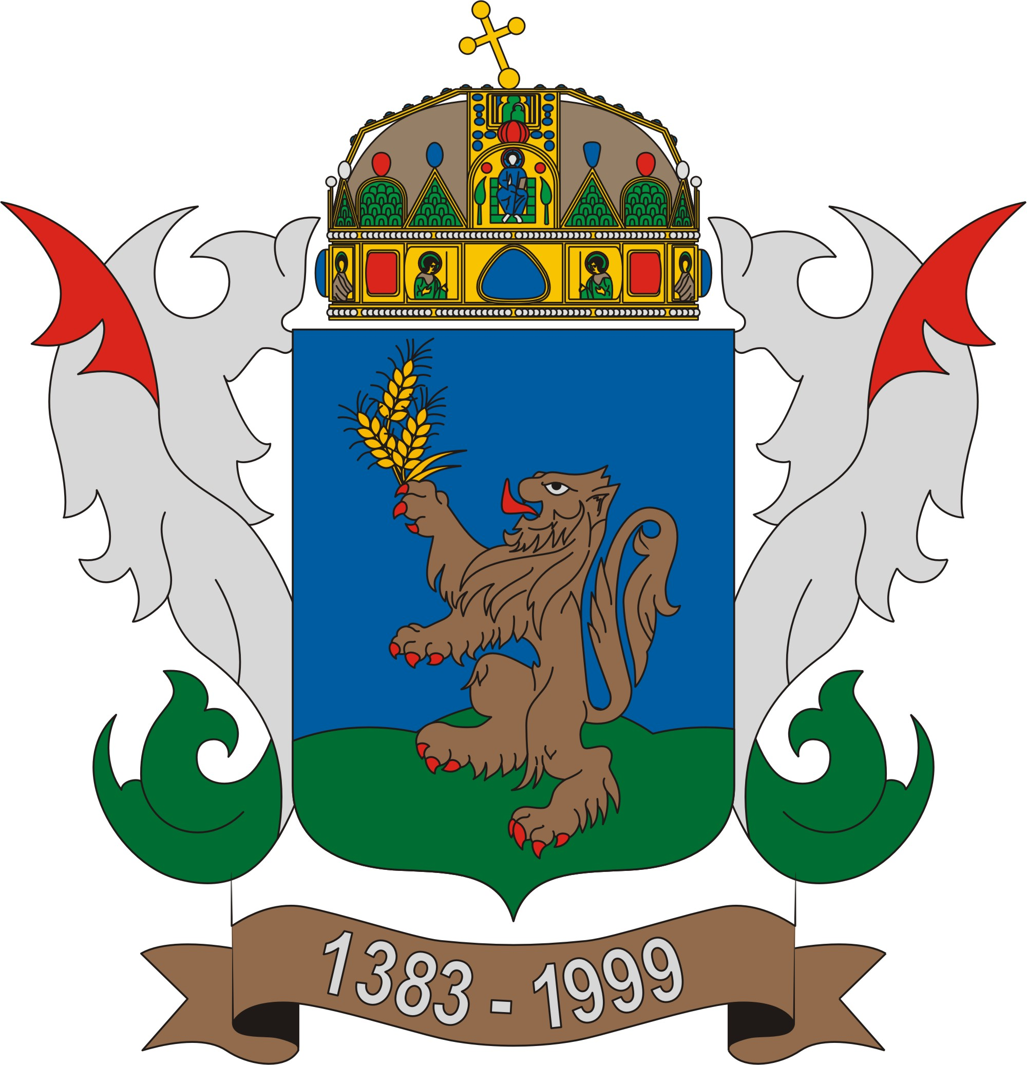 Coat of arms of Pusztaberki, Hungary